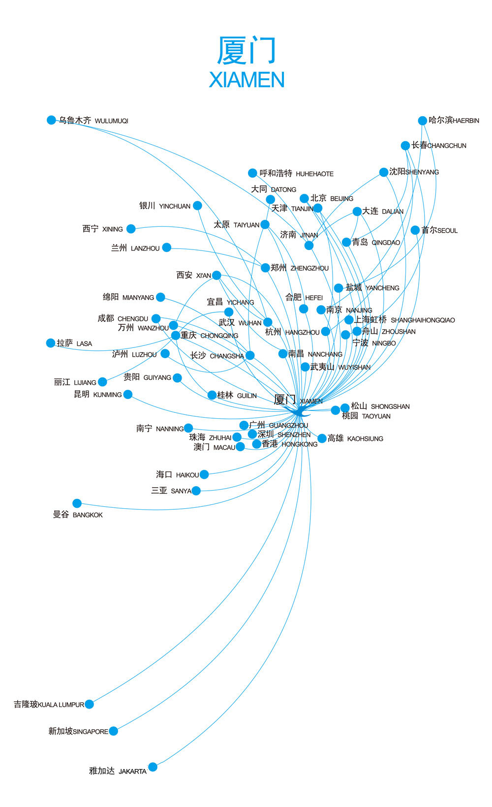 Xiamen Airlines route map for flights from Xiamen (fall 2013)中文（中国大陆）: 厦门航空往返厦门高崎国际机场之航路图（2013年冬春航季）